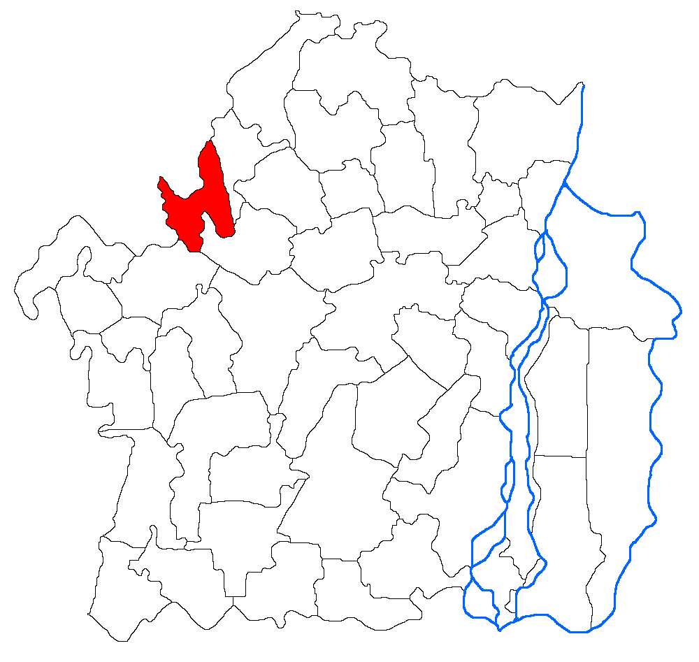 Limits of Commune of Gradistea in Braila County